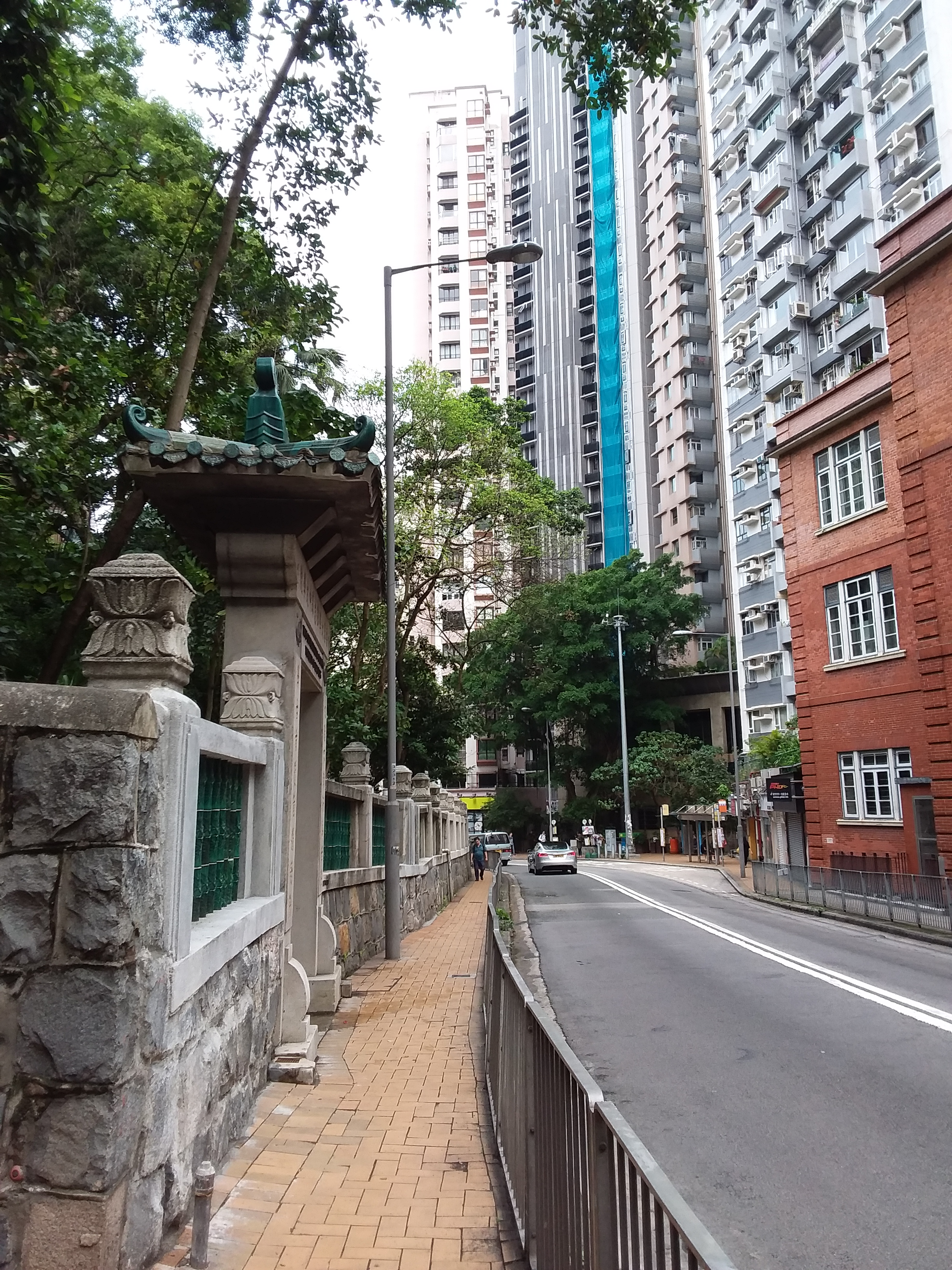 HKU PFL Campus stone wall 半山 Mid-levels 般咸道 Bonham Road April 2019